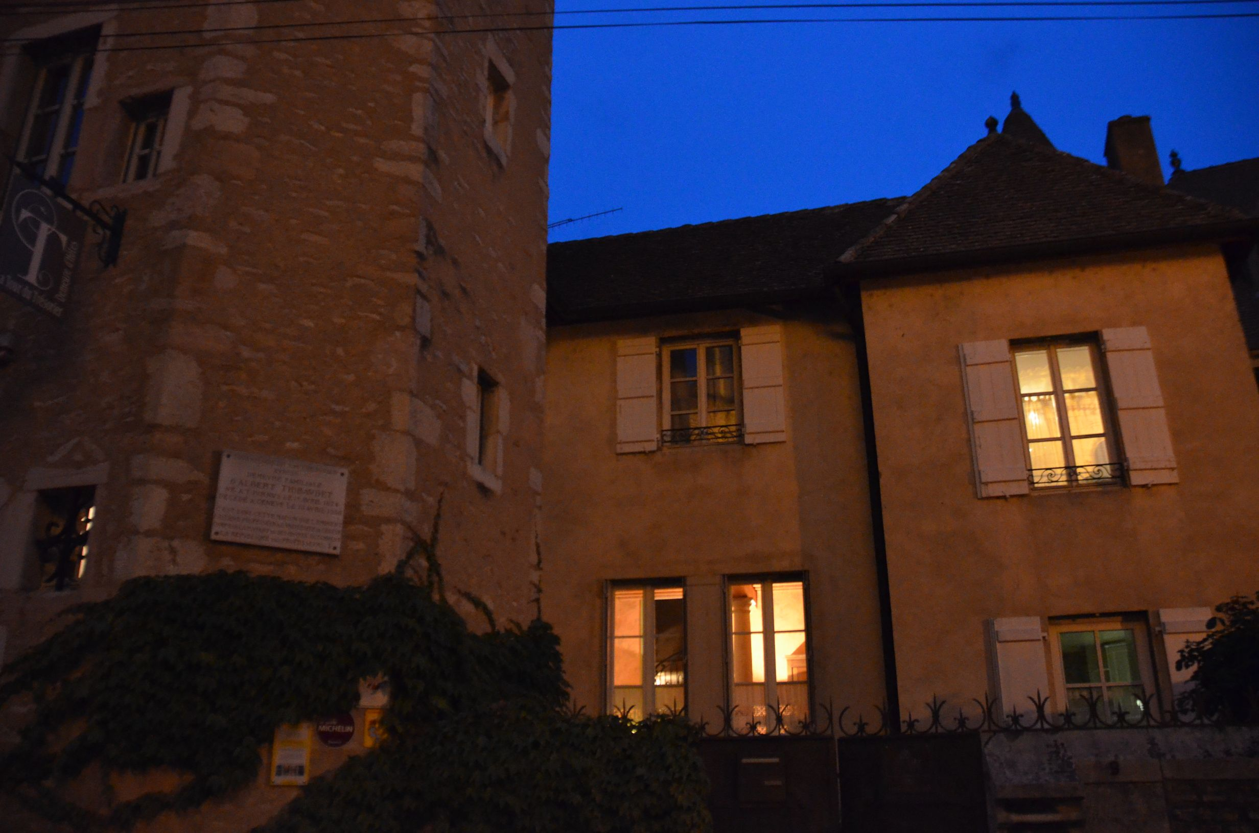 The born house of Albert Thibaudet, in Tournus (Saône-et-Loire, Bourgogne, France).